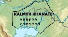 The Kalmyk Khanate in the 17th century